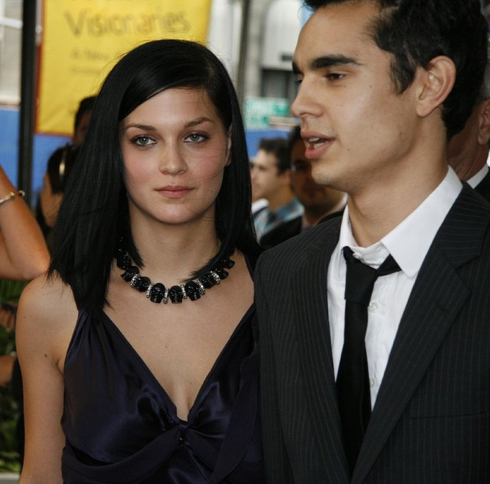 Max Minghella and Leigh Lezark at the Opera